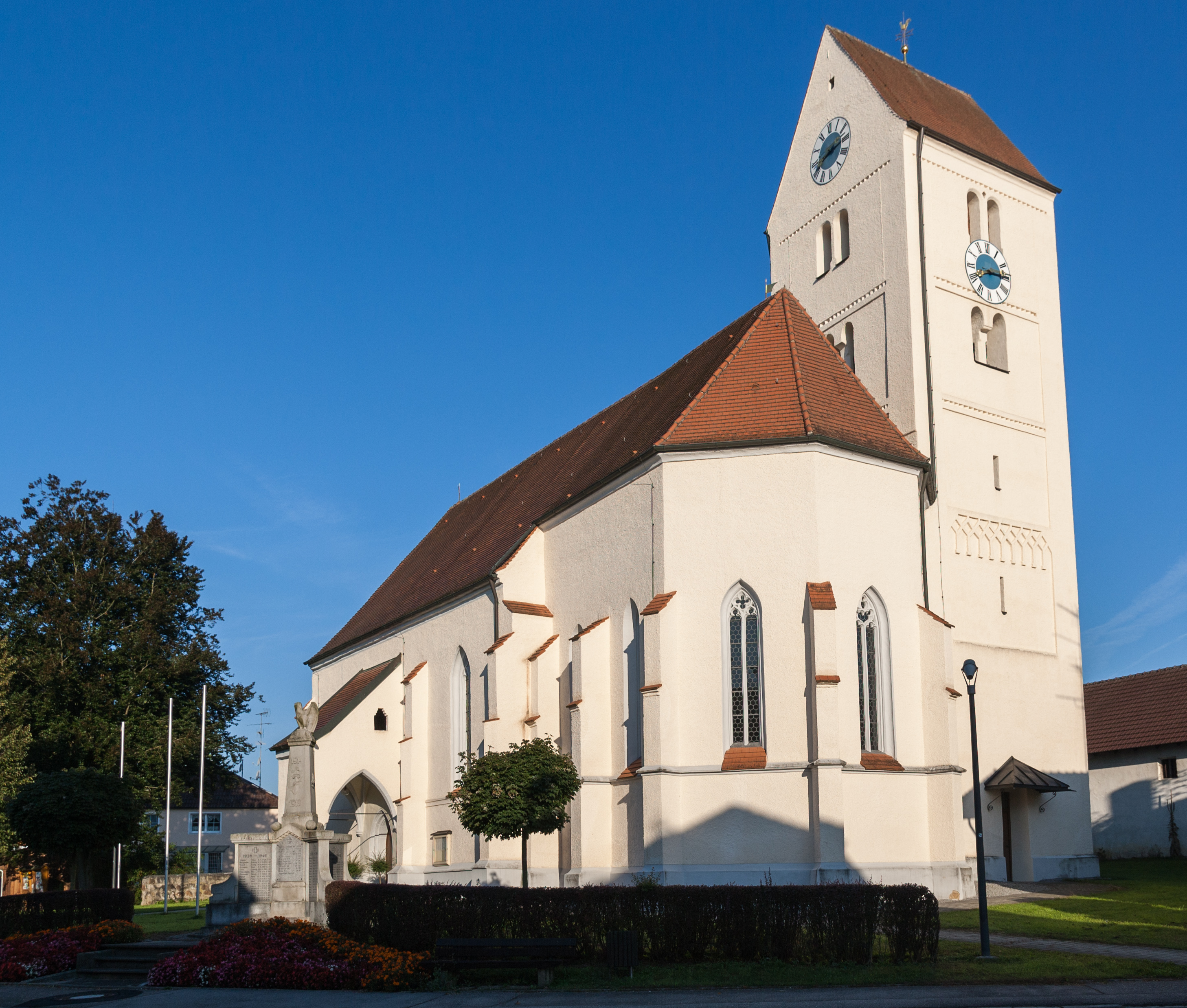 This is a photograph of an architectural monument.